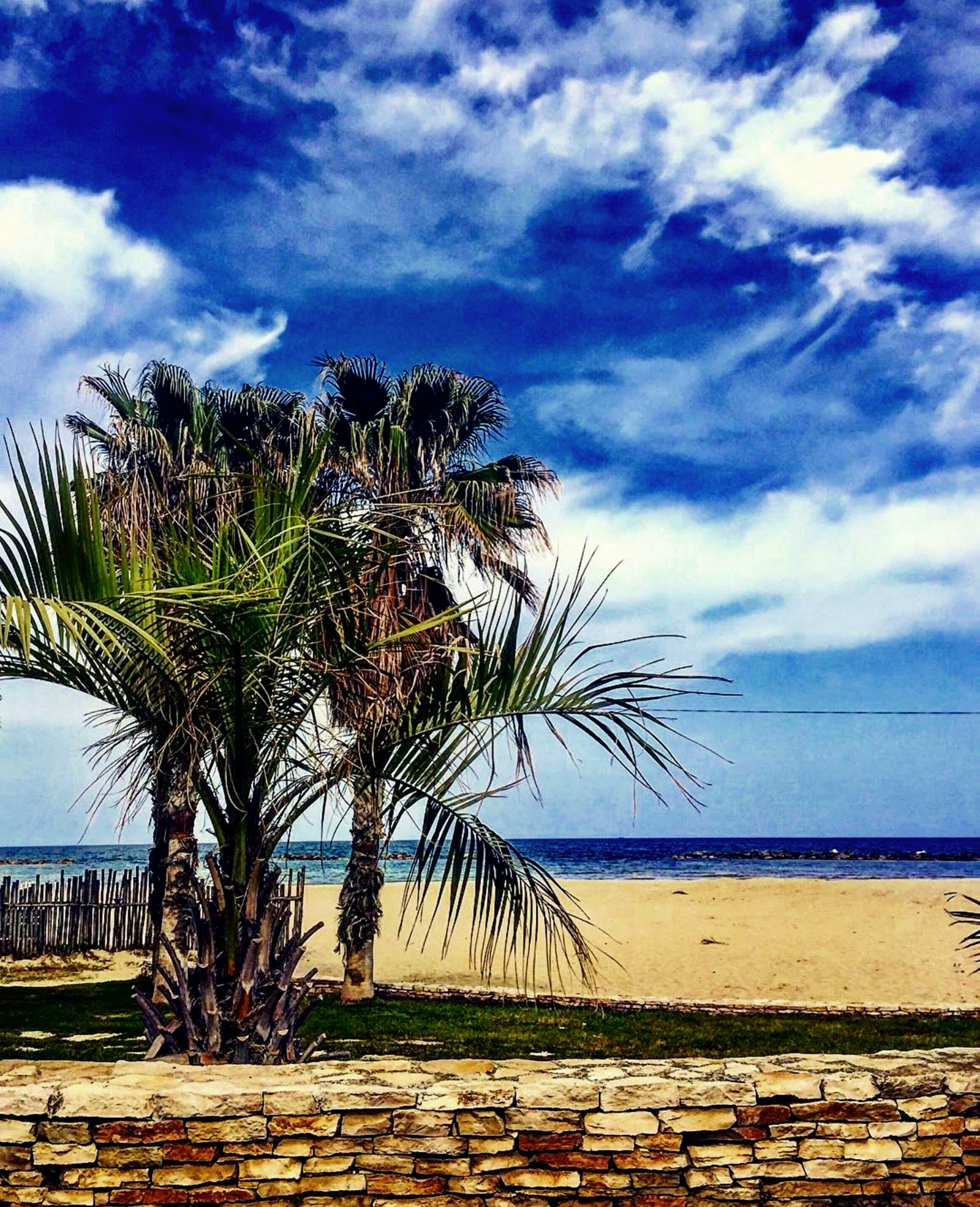 One of the many artificial oases on the southern seafront of San Benedetto del Tronto